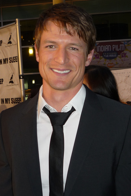 Philip Winchester at the premiere for In My Sleep in April 2010.